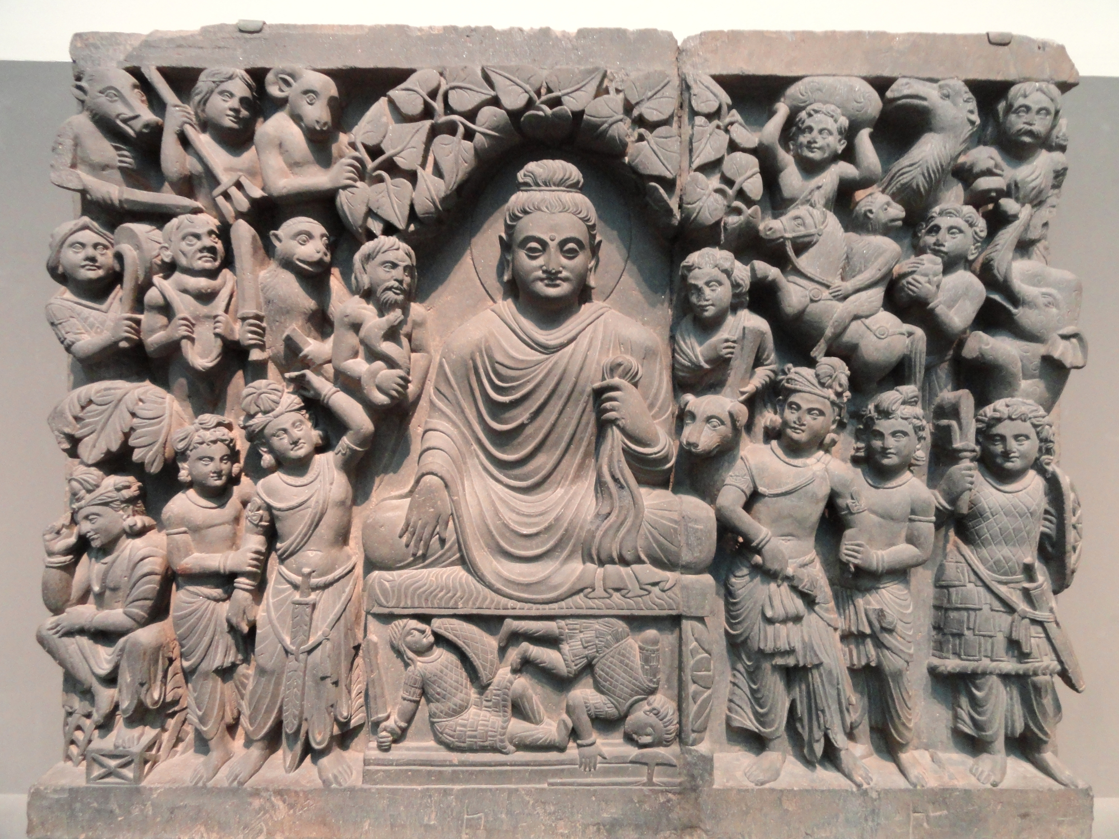 Exhibit in the Freer Gallery of Art, Washington, DC, USA. This artwork is old enough so that it is in the public domain.